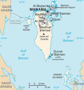 Map of Bahrain